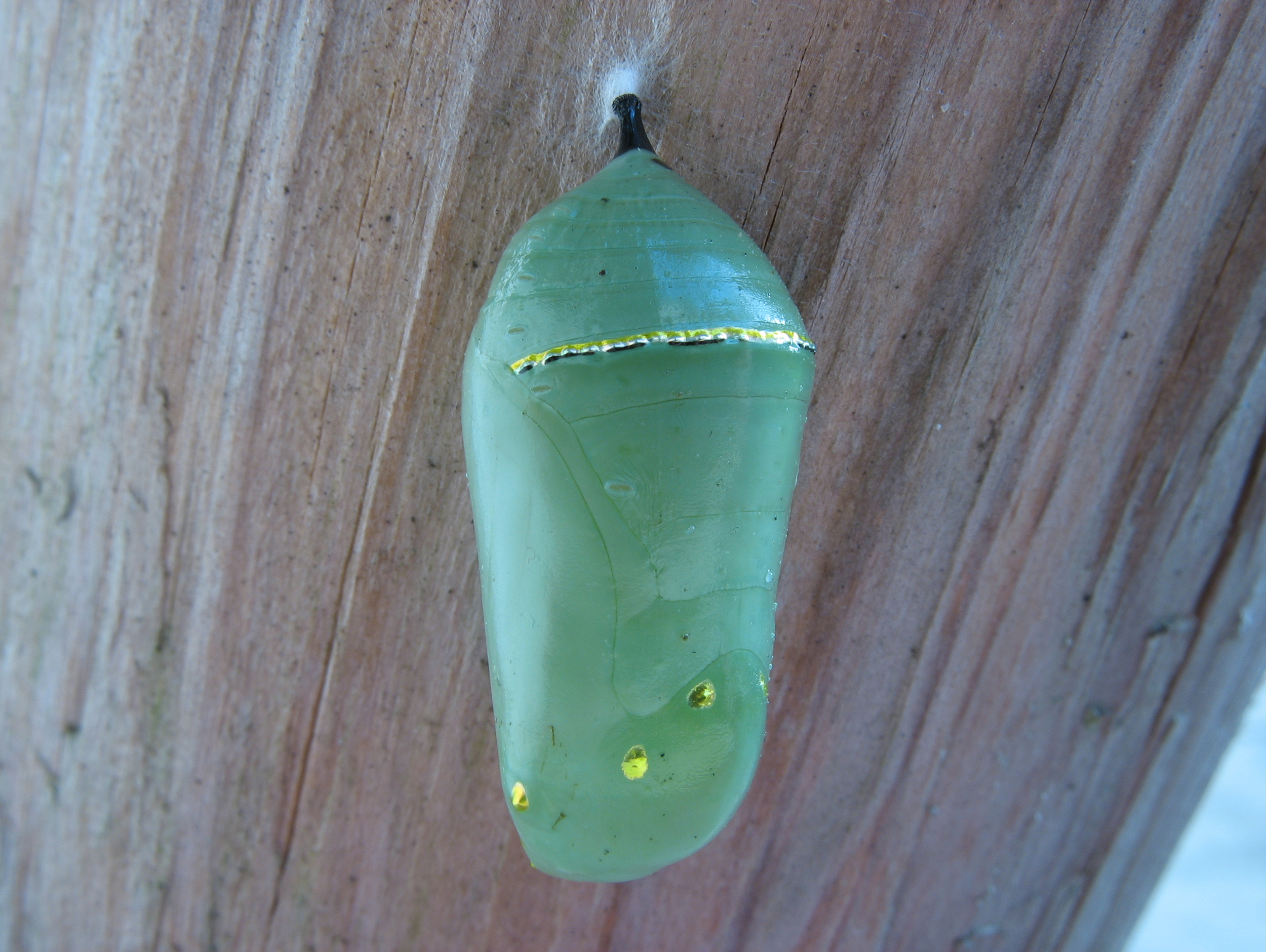 Cocoon of a Monarch Butterfly (on the leg of a wooden porch swing). This image is the result of digitally layering multiple pictures taken at different focal distances (so that more of the subject is in focus).